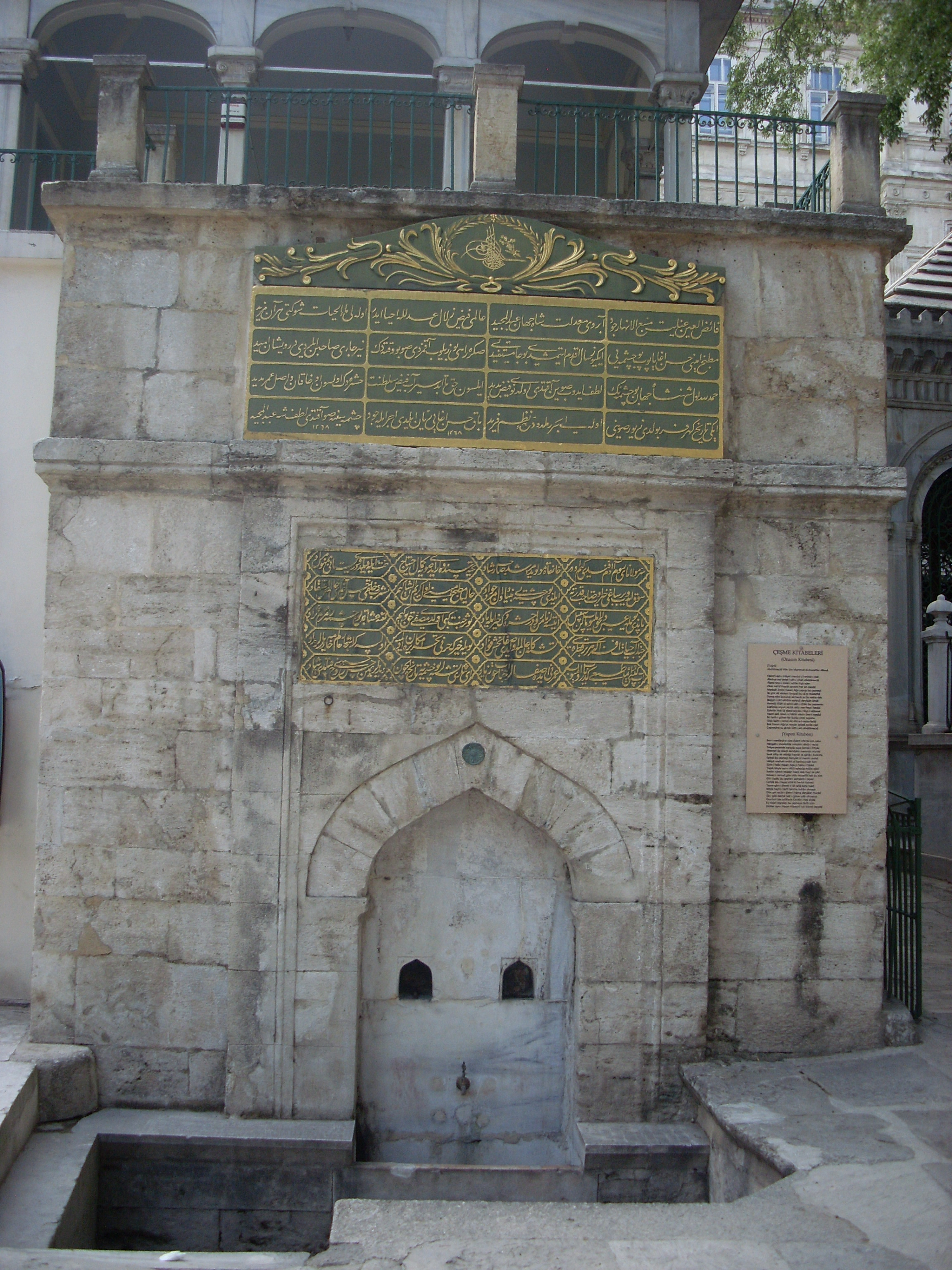 Galata Mevlevihanesi Müzesi 7